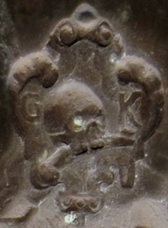 "coat of arms" (seal?) of Georgius Koppehele (German canon, died Magdeburg 1604) as depicted in his epitaph. The symbols are most likely to be interpreted in the context of baroque vanitas-symbolism.